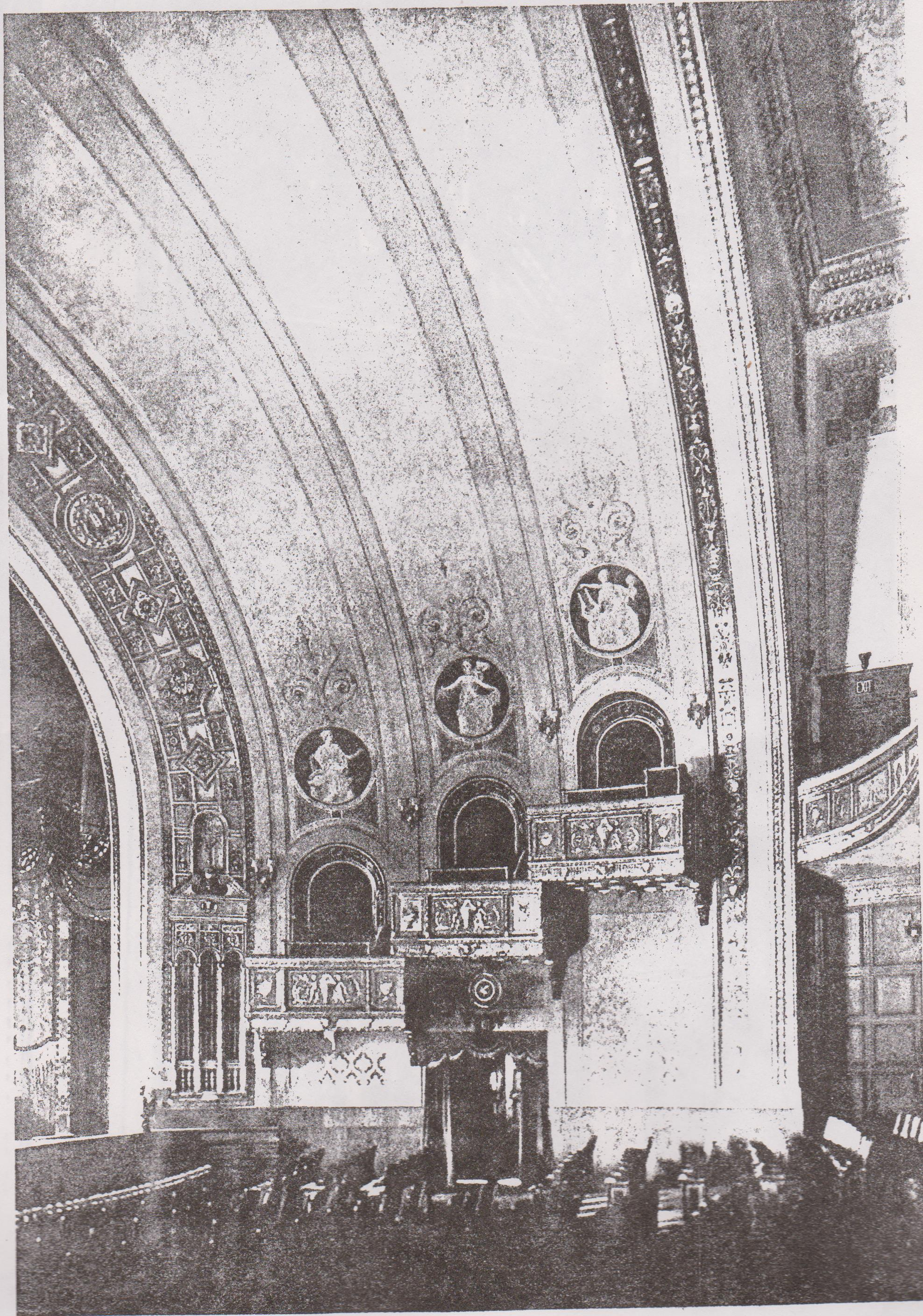 Some of the boxes and proscenium arch of the theatre.